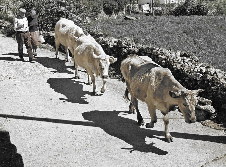 Pastores